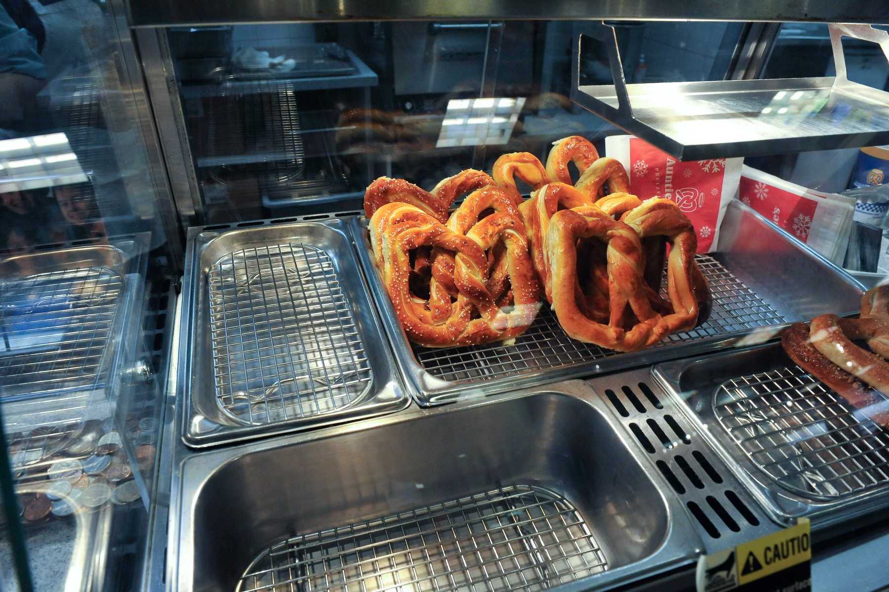 Macy's pretzel. (It's exactly the same kind you get at the mall, but you feel better about yourself because it came from Macy's)